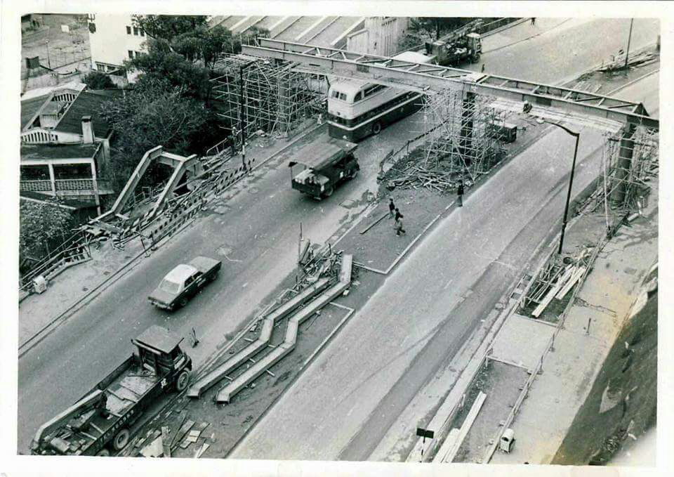 Hing Yik